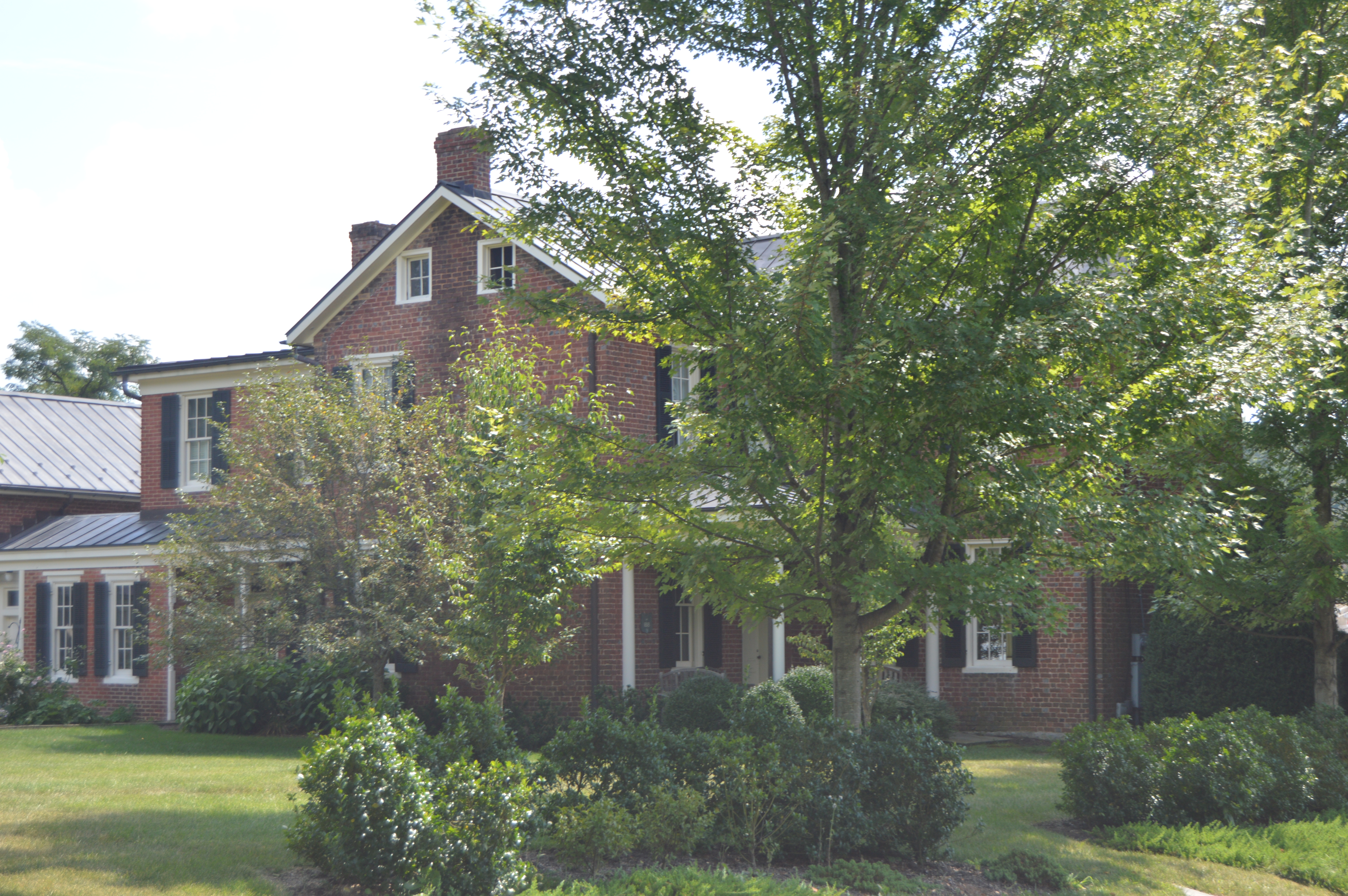 Side of the James Withrow House, located at 200 N. Jefferson Street (U.S. Route 219) in Lewisburg, West Virginia, United States. Built in 1818, it is listed on the National Register of Historic Places.